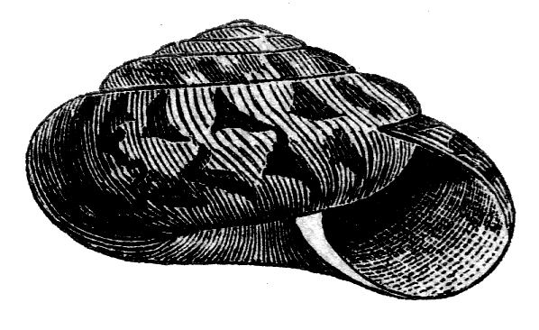 Anguispira alternata, called Helix alternata by Binney in 1878